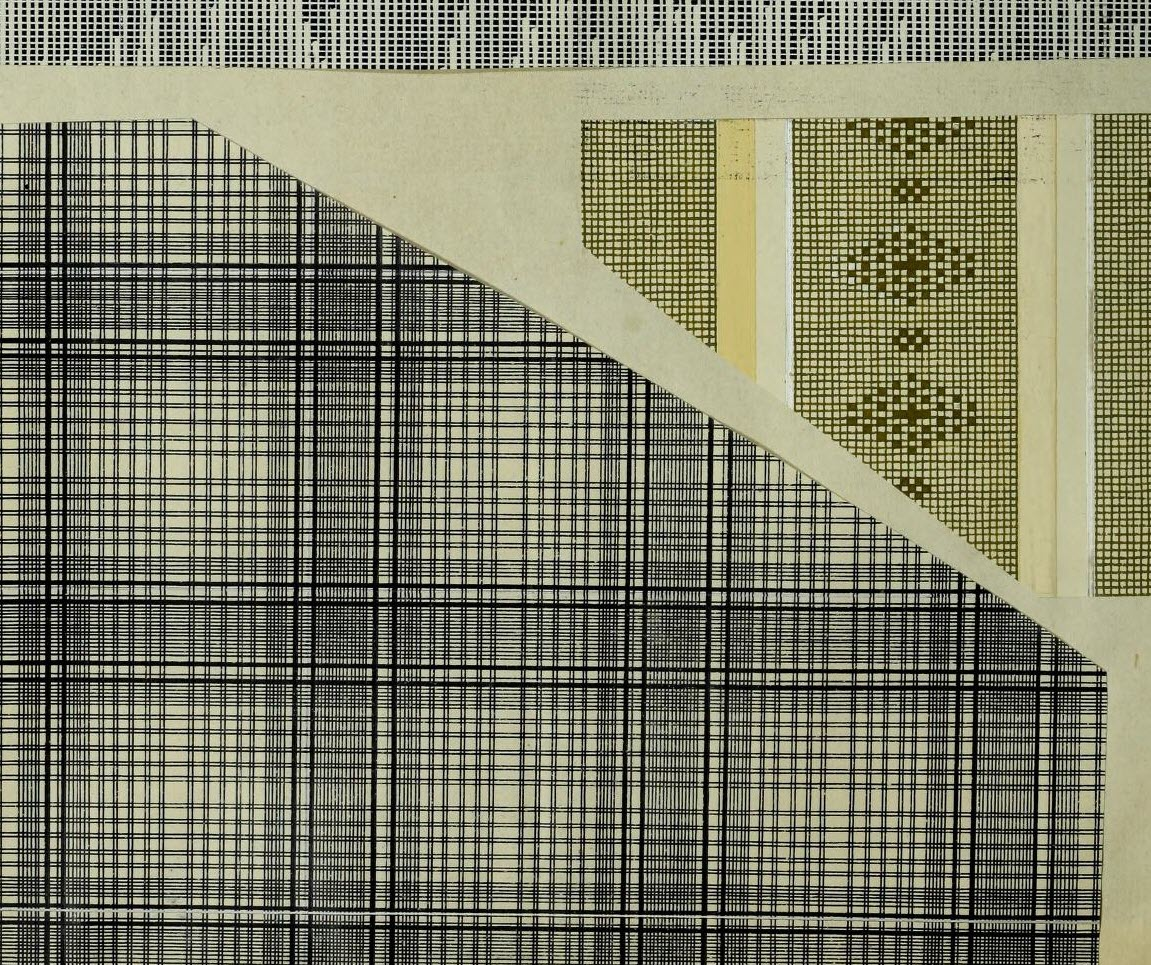 [Detail] Embroidery and textile designs